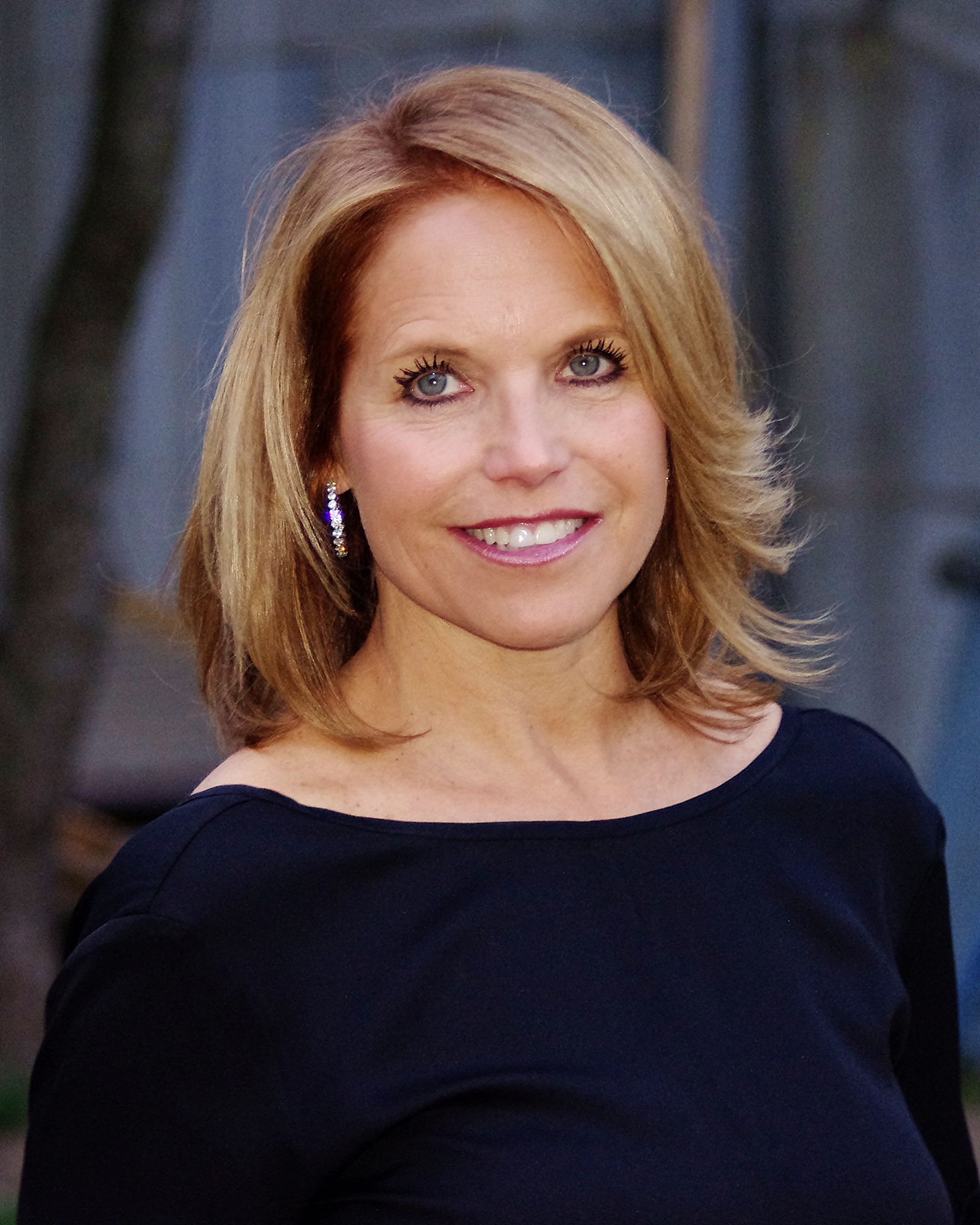 Katie Couric at the Vanity Fair party for the 2012 Tribeca Film Festival.